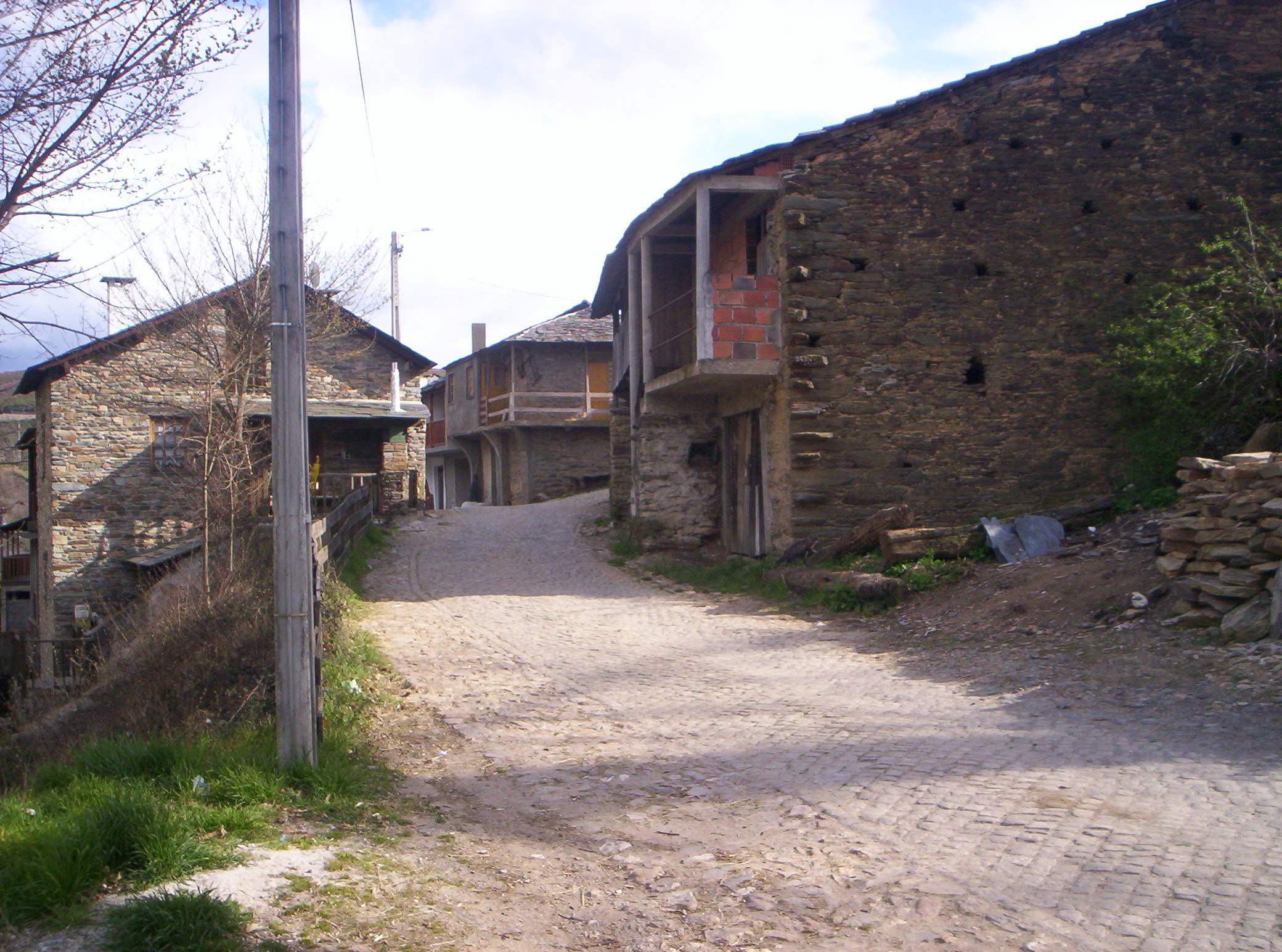 Tradicional houses at Rio de Onor, in Portugal.